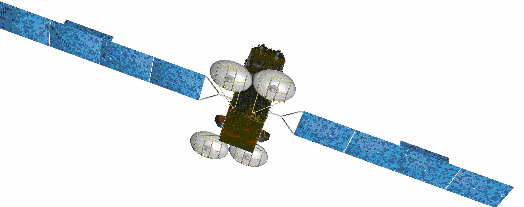 Eutelsat's KA-SAT satellite artist view (launch mid-2010)